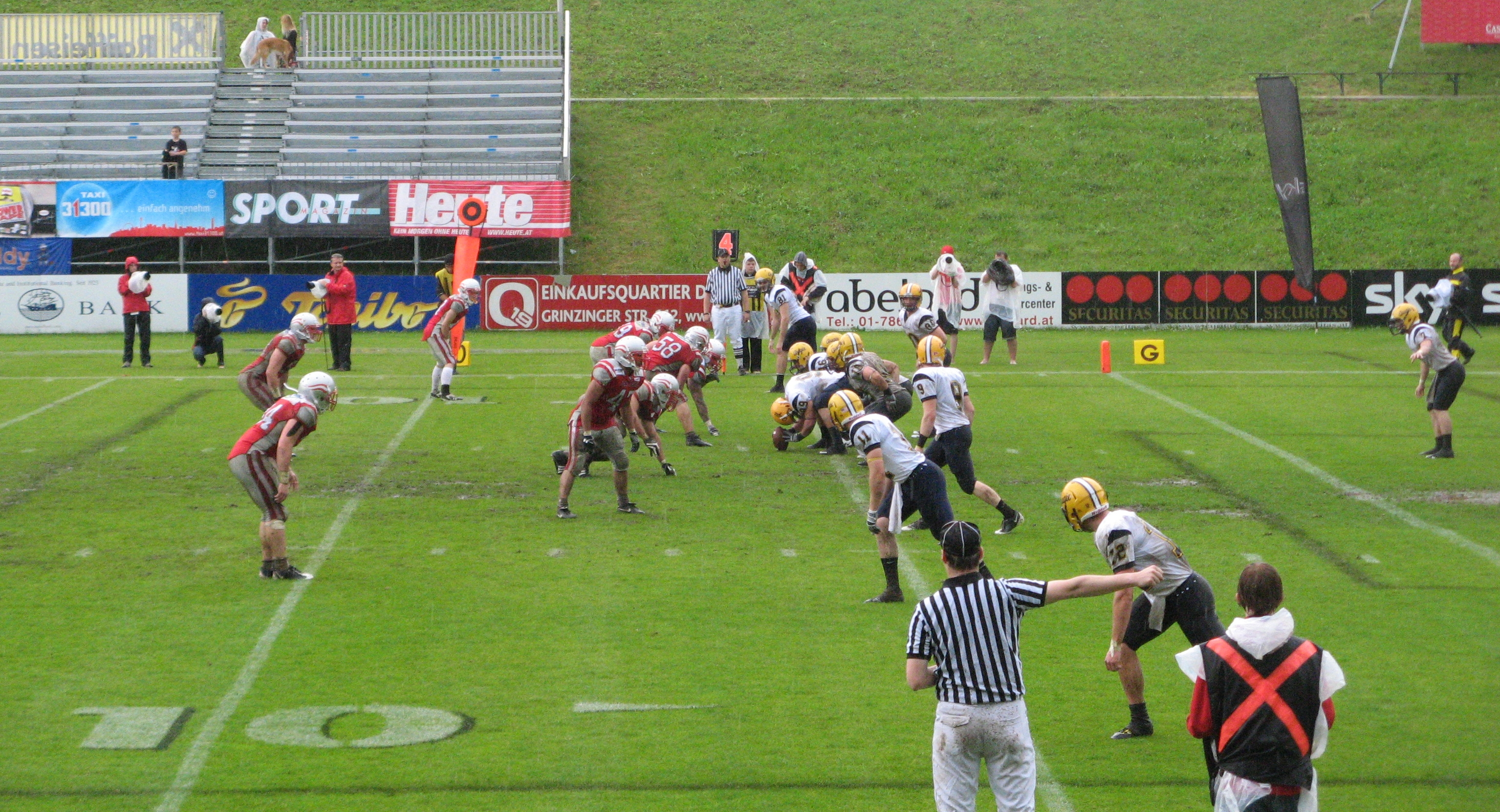 Charity Bowl XII: Team Austria vs. Augustana Vikings (10-3) @ Hohe Warte Stadium, Vienna, Austria; punt attempt